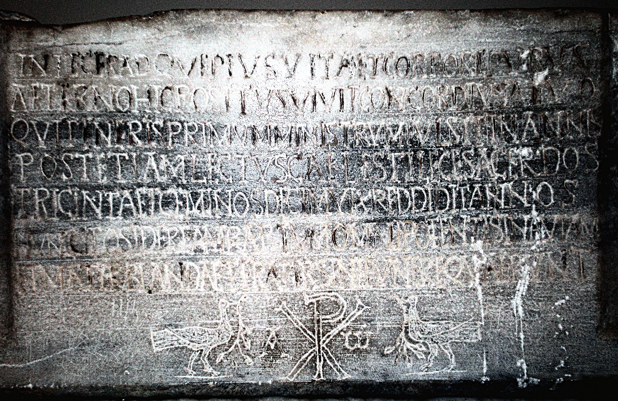 Sarcophagus of Concordius, details